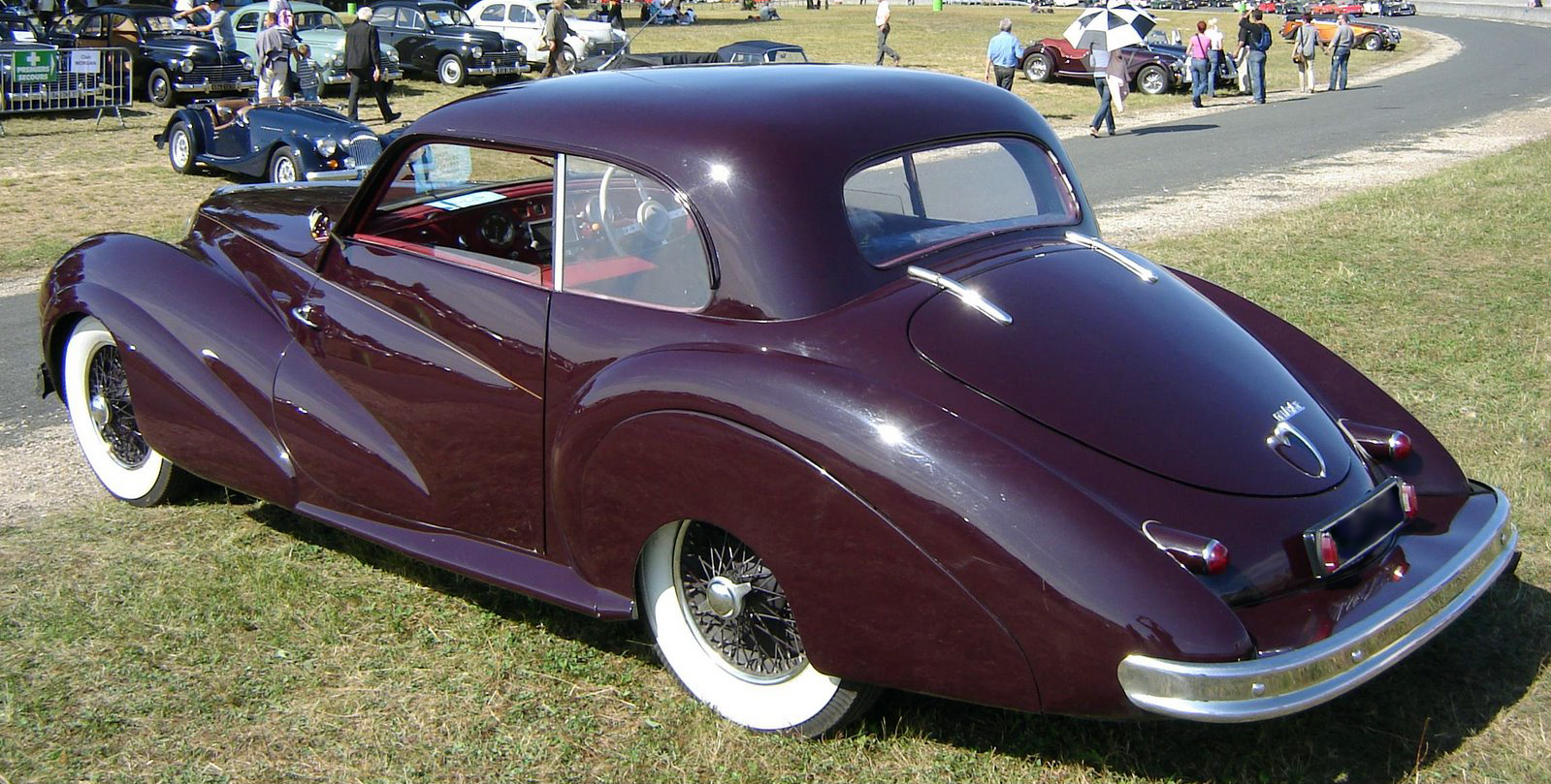 1949 Delahaye 135MS coach Faget & Varnet at the Autodrome Héritage Festival, Montlhéry 2009